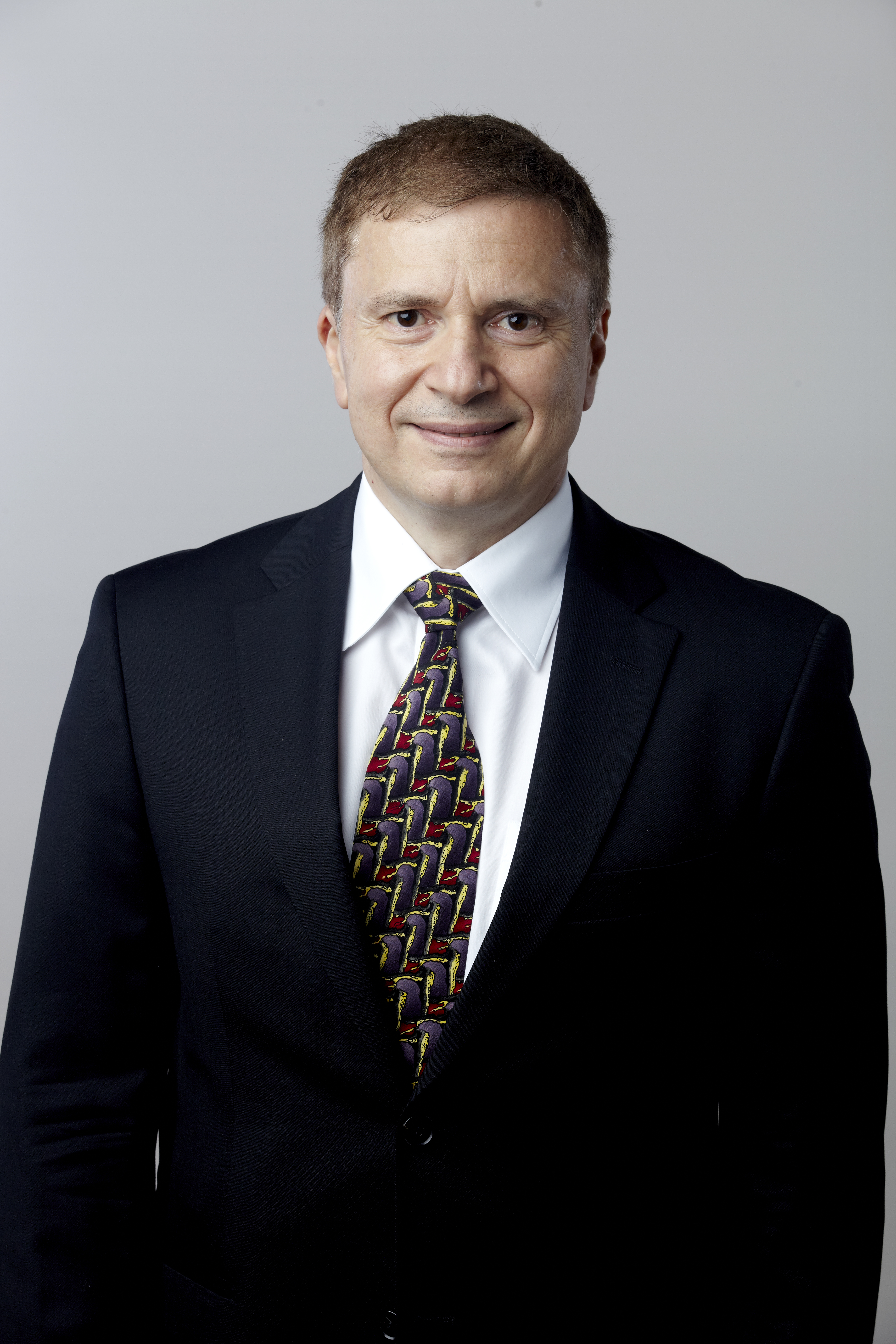 Professor Demetri Terzopoulos FRS, Royal Society Fellow elected 2014 Attribution: The Royal Society